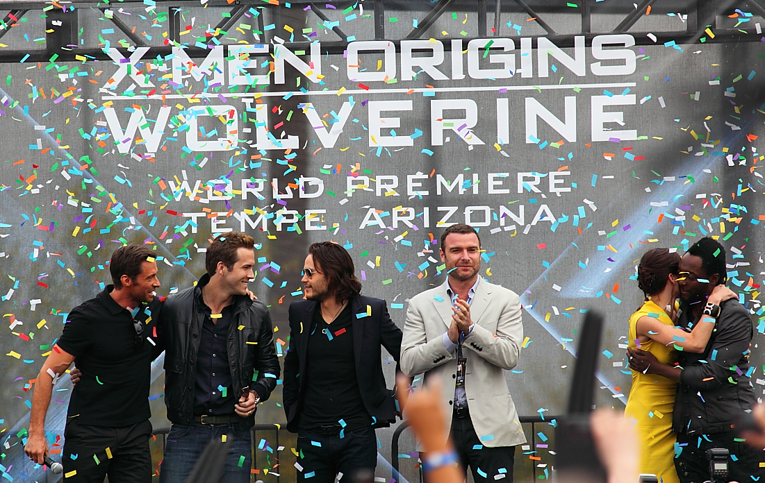 From left to right on stage: Hugh Jackman, Ryan Reynolds, Taylor Kitsch, Liev Schreiber, Lynn Collins, and will.i.am at the X-Men Origins: Wolverine premiere in Tempe, Arizona.